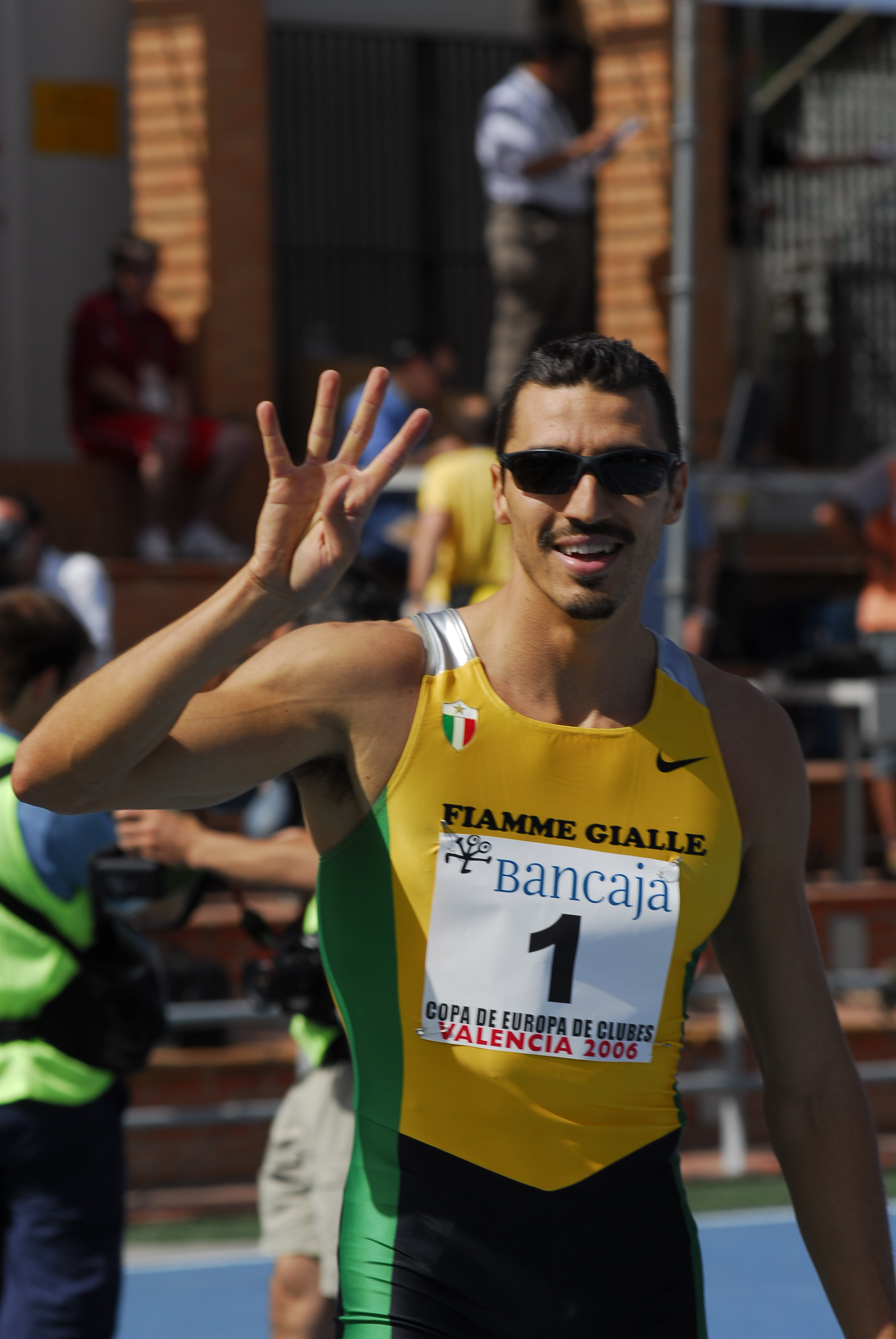 European Championship for Club Valencia 2006